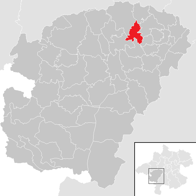 District Vöcklabruck